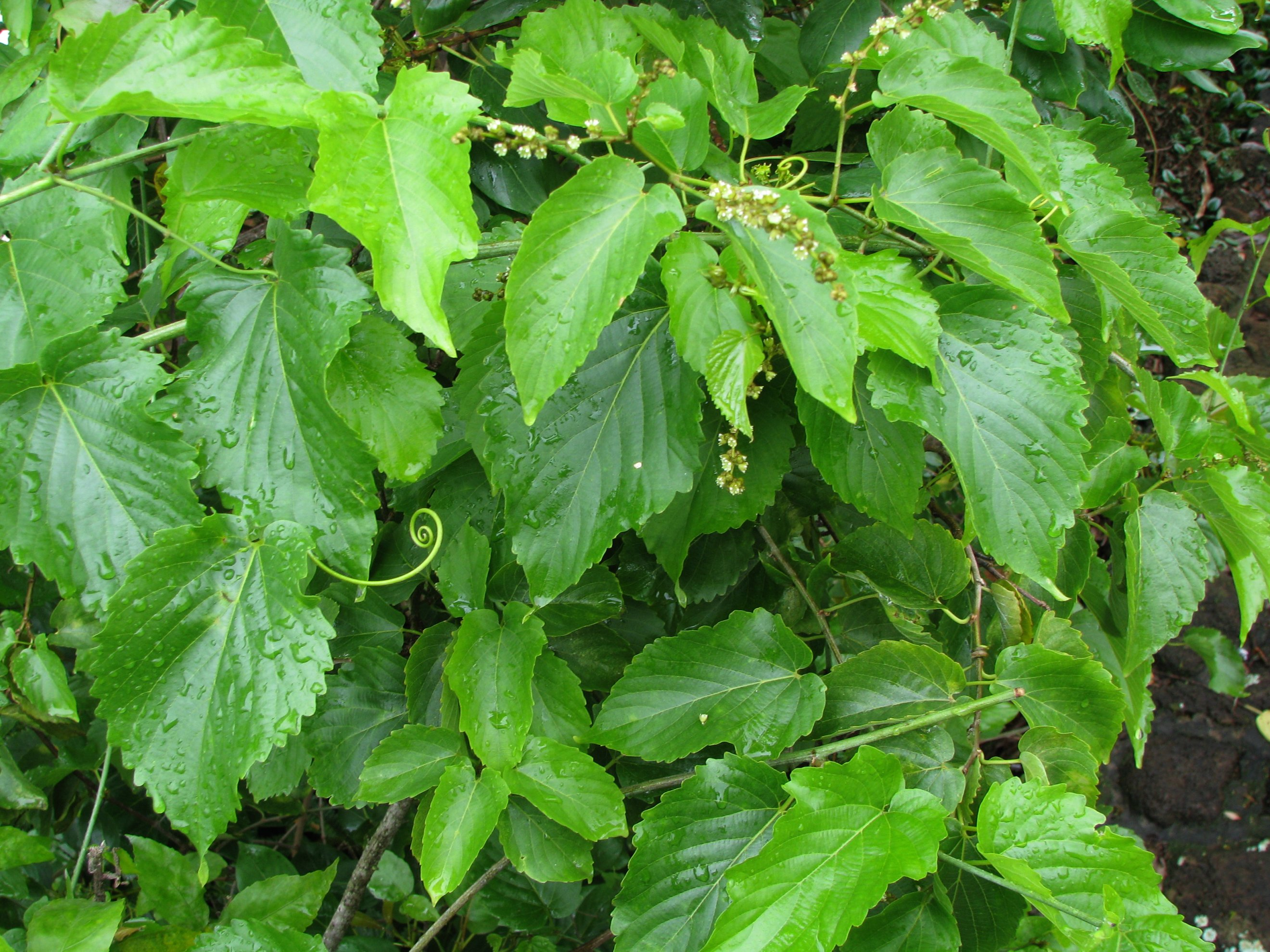 Oʻahu chewstick Rhamnaceae Endemic to the Hawaiian islands Endangered Oʻahu (Cultivated)